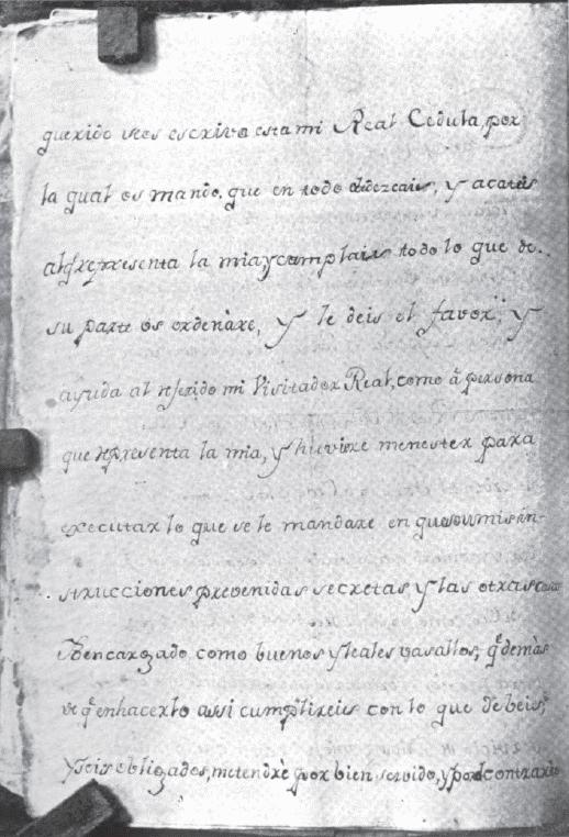 Forged document used as evidence supporting the validity of the Peralta land grant. Entirely forged page that was inserted as part of a Royal cedula (decree).